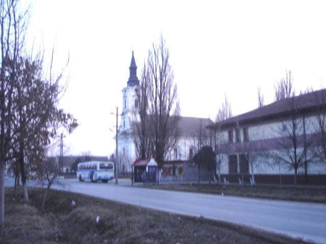 Main street and the Orthodox Church in Kumane/ Vojvodina/ Serbia